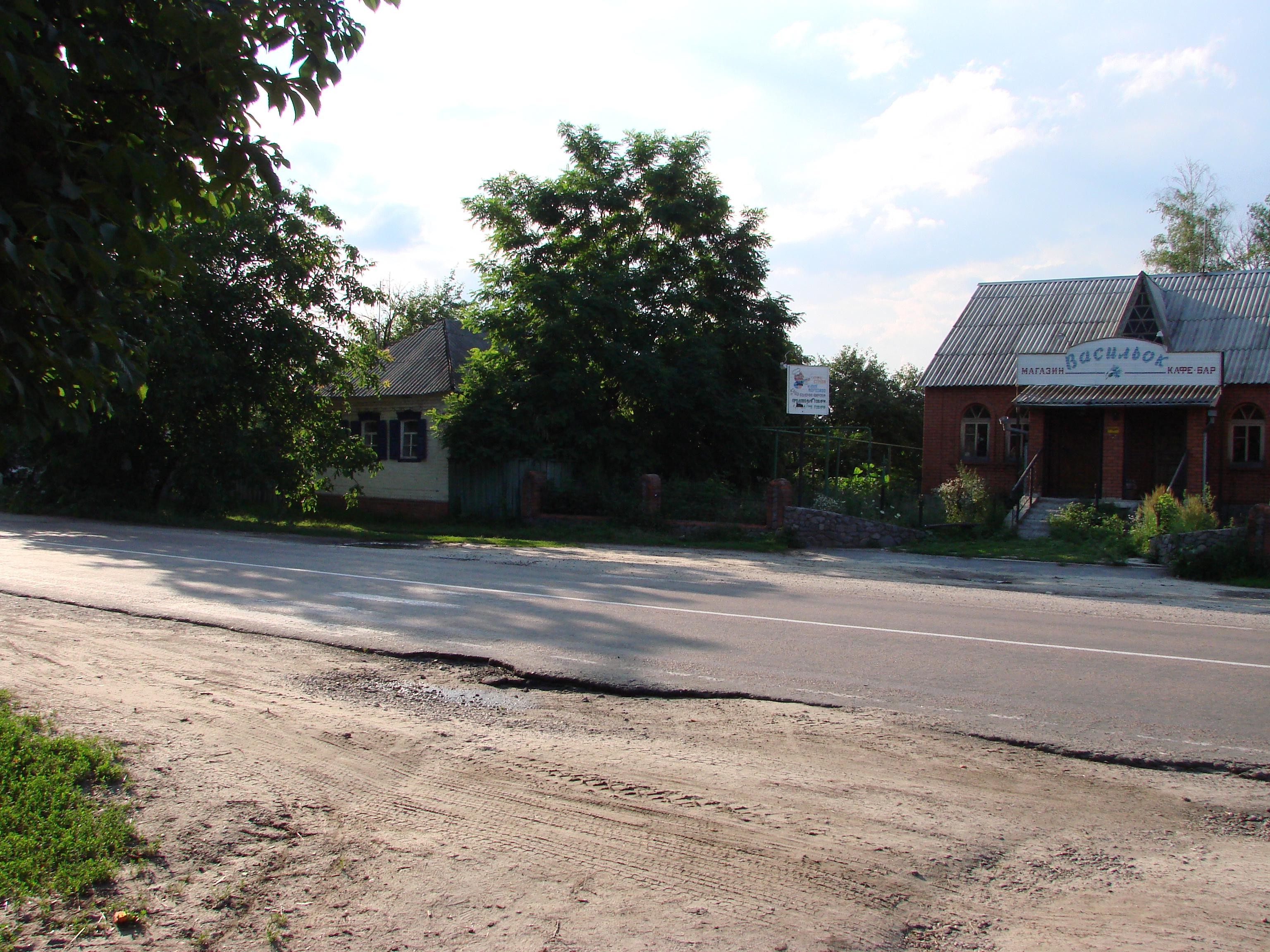 Ukraine. Sumy region. Khukhra village.